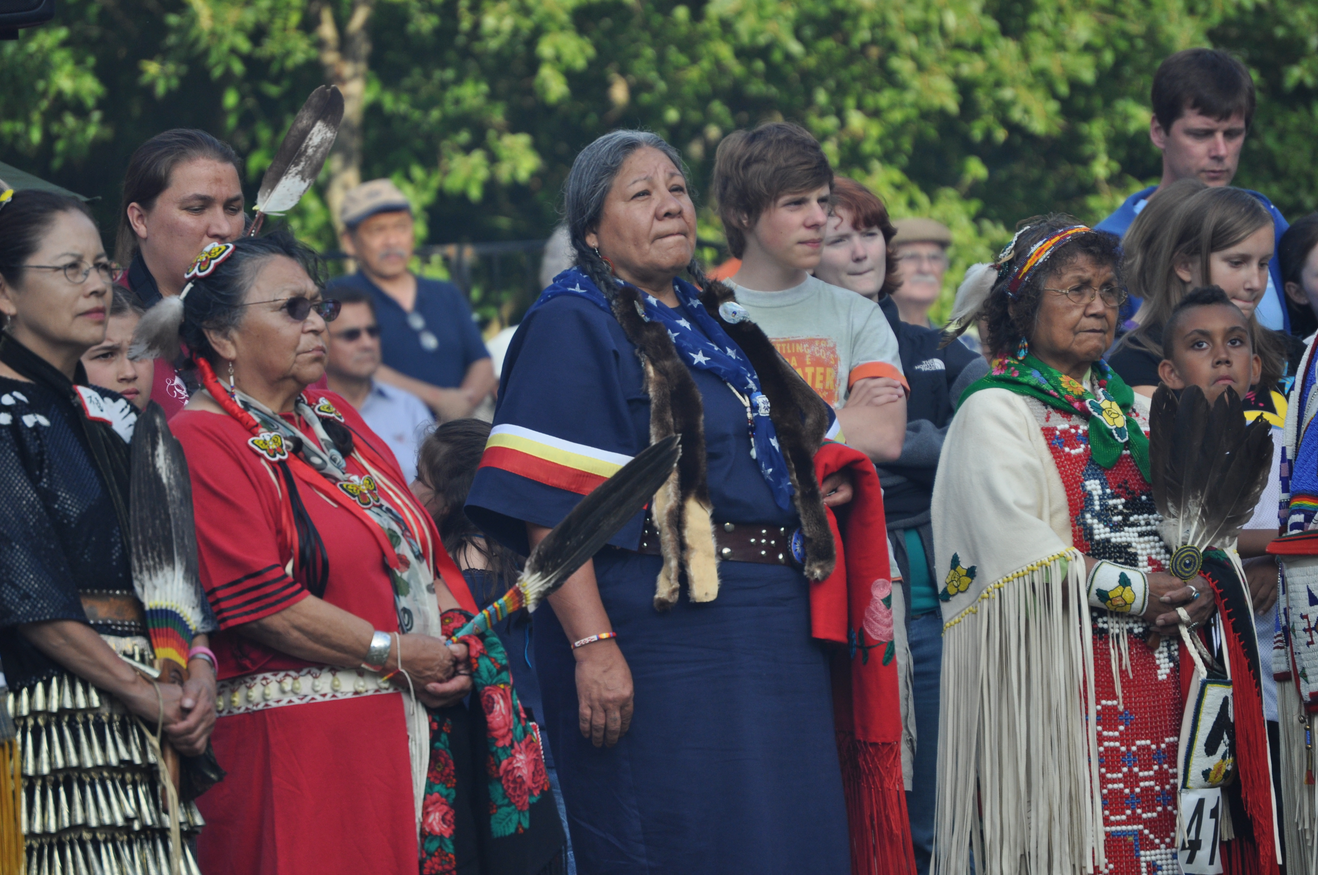 Seafair Indian Days Pow Wow, Daybreak Star Cultural Center, Seattle, Washington. The event is part of Seafair (a series of annual summer events in Seattle) and under the aegis of the United Indians of All Tribes Foundation.